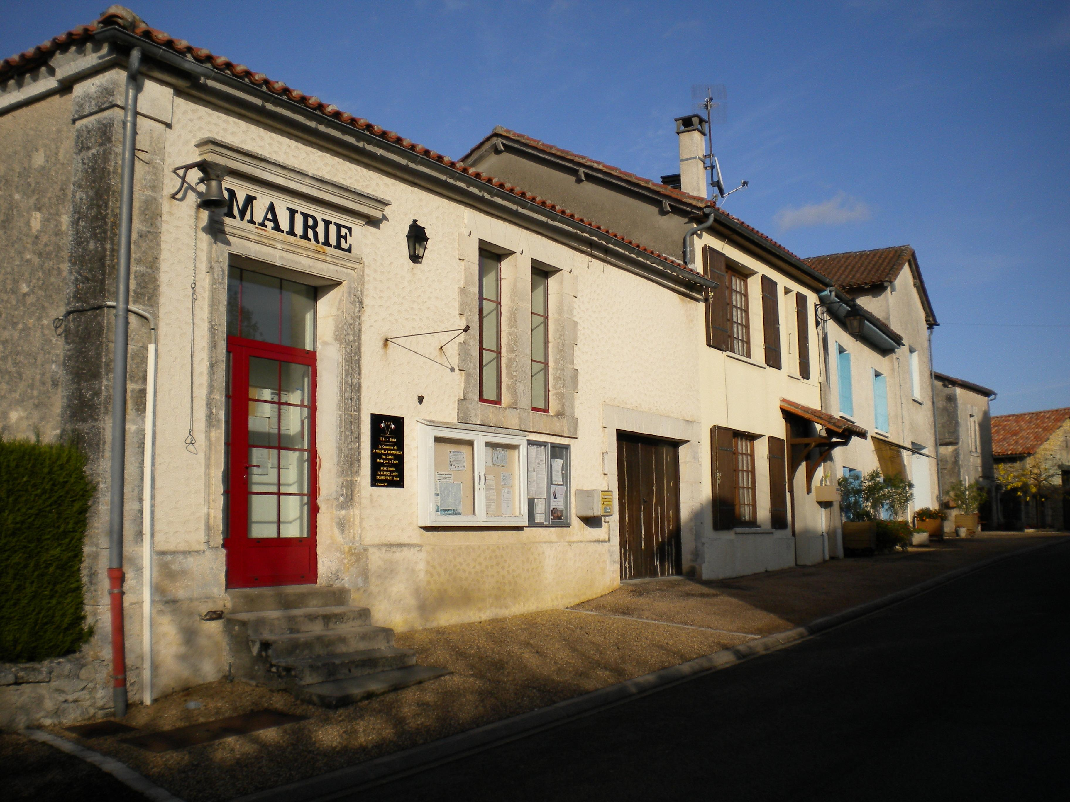 The county hall (mairie) of La Chapelle-Montmoreau, Dordogne, France.